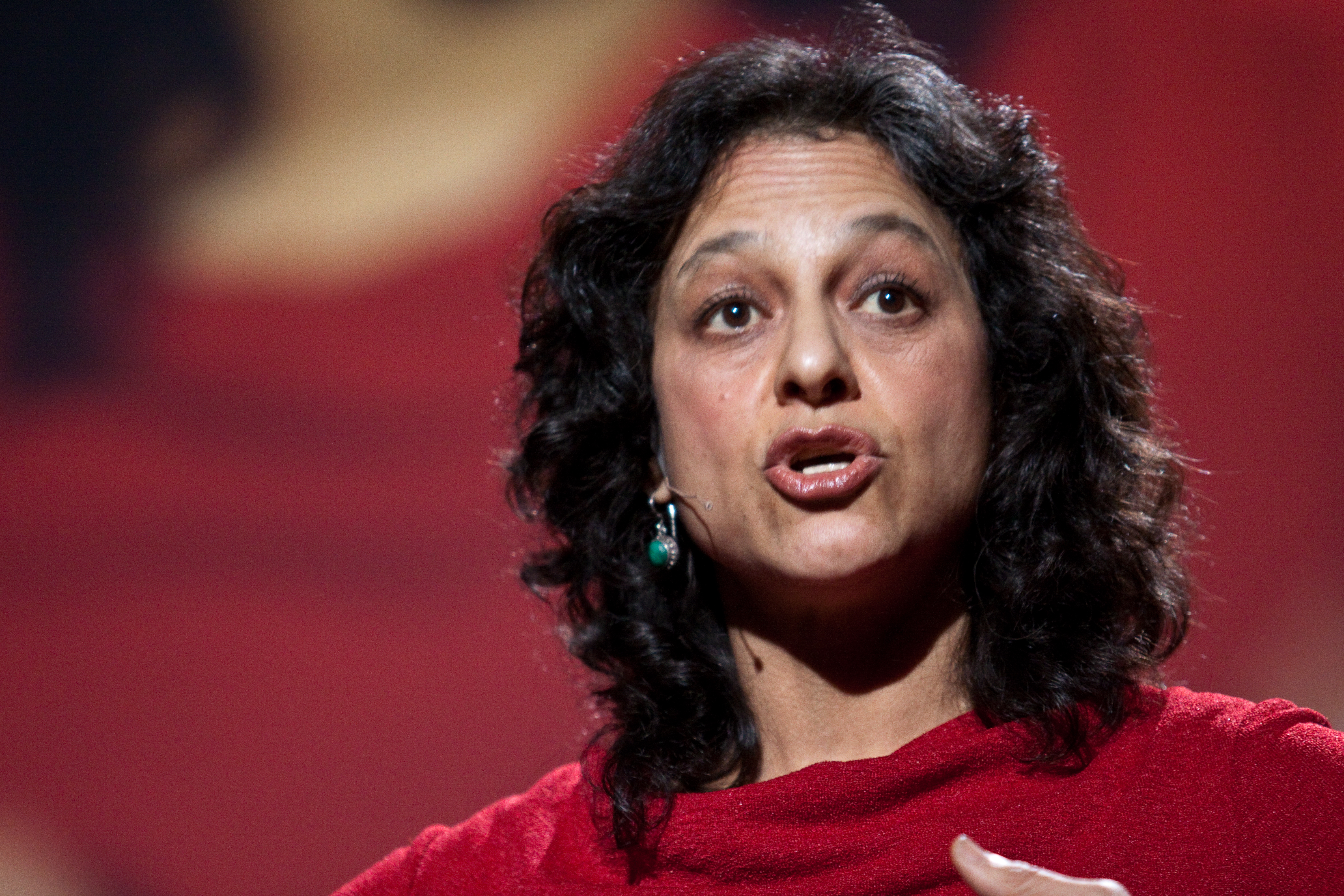 Nalini Nadkarni speaking at TED